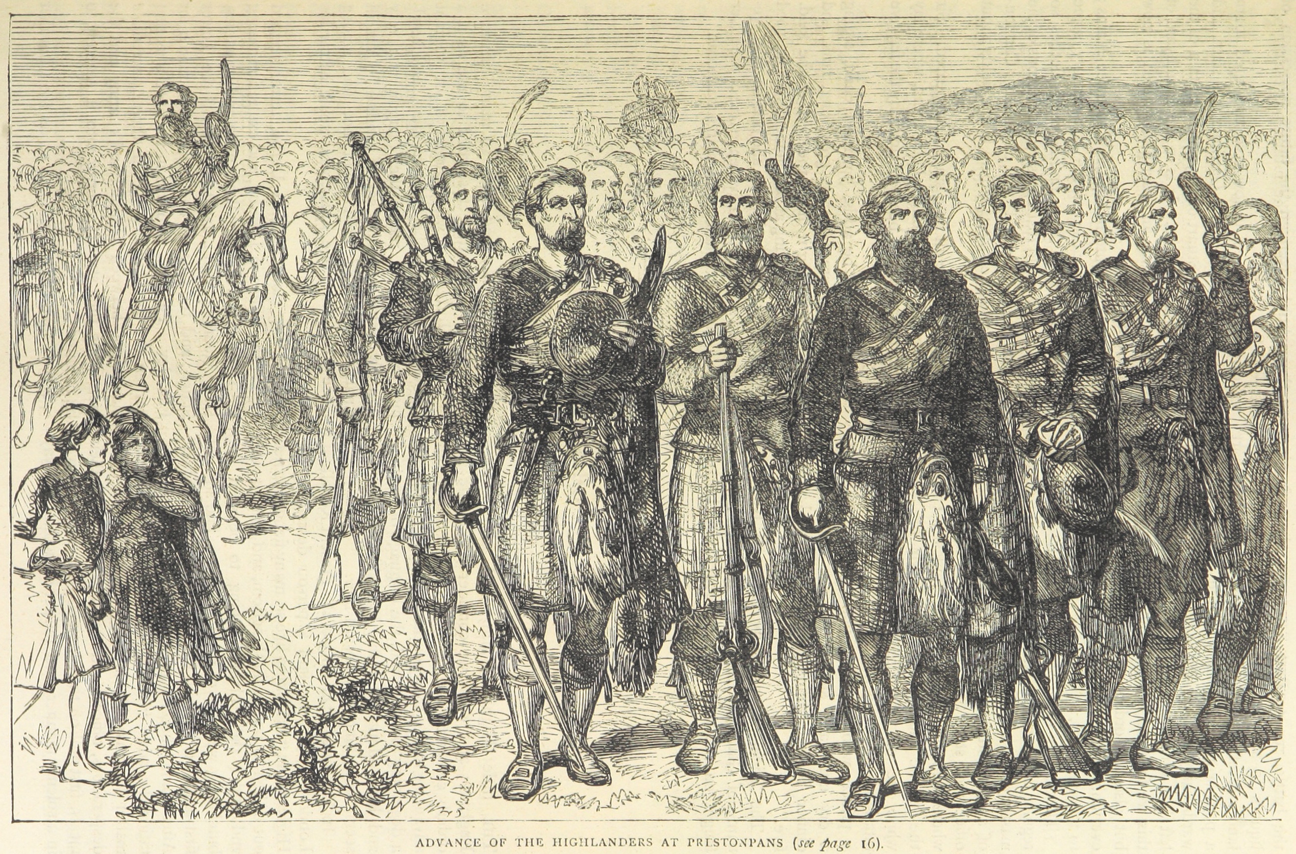 The Jacobite Highlanders advance at the Battle of Prestonpans.